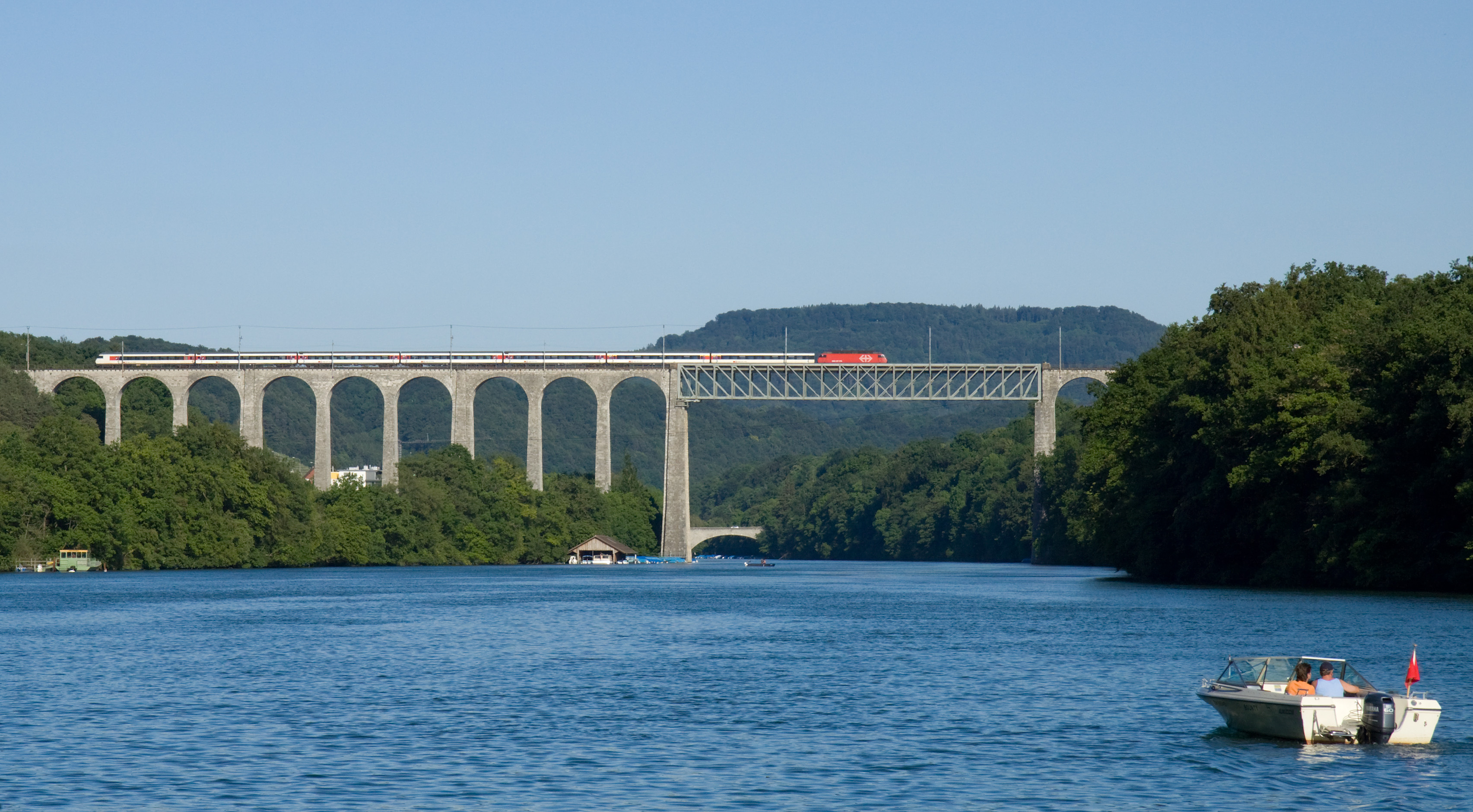 SBB-CFF-FFS Re 460 with a push-pull train consisting of type IV standard coaches on the Rhine bridge at Eglisau.